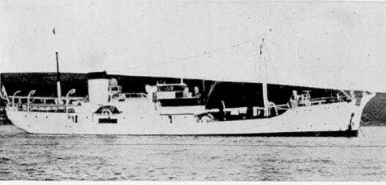 Japanese fishing industry inspection ship Shunkotsu Maru which was requisitioned by the Imperial Japanese Navy during World War II